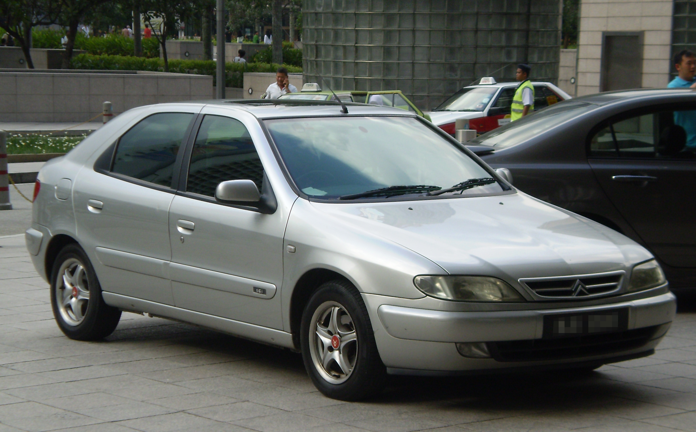 Front quarter view of a first generation Citroën Xsara, in the KLCC, Kuala Lumpur, Malaysia.